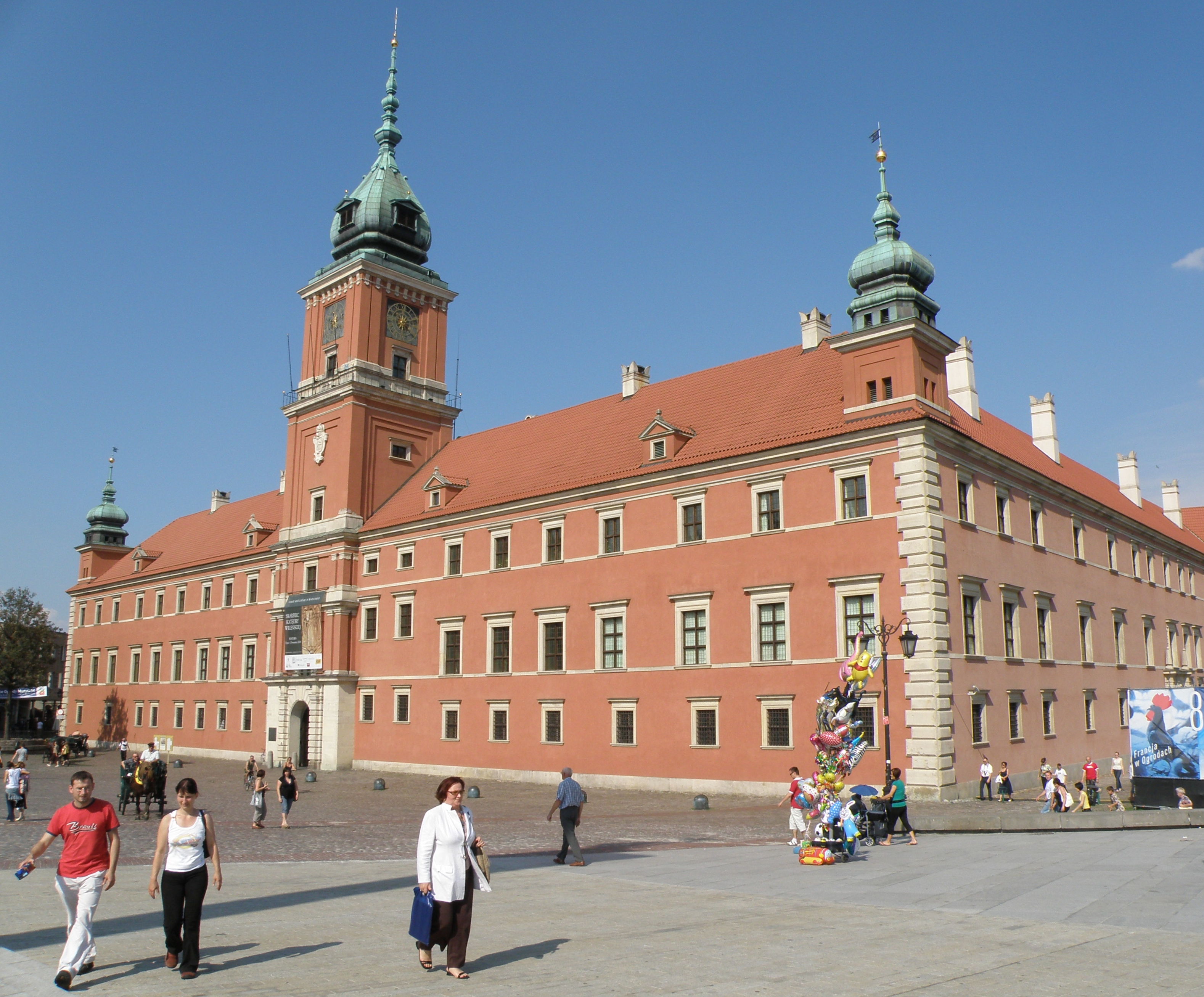 Poland, Warsaw Royal Castle